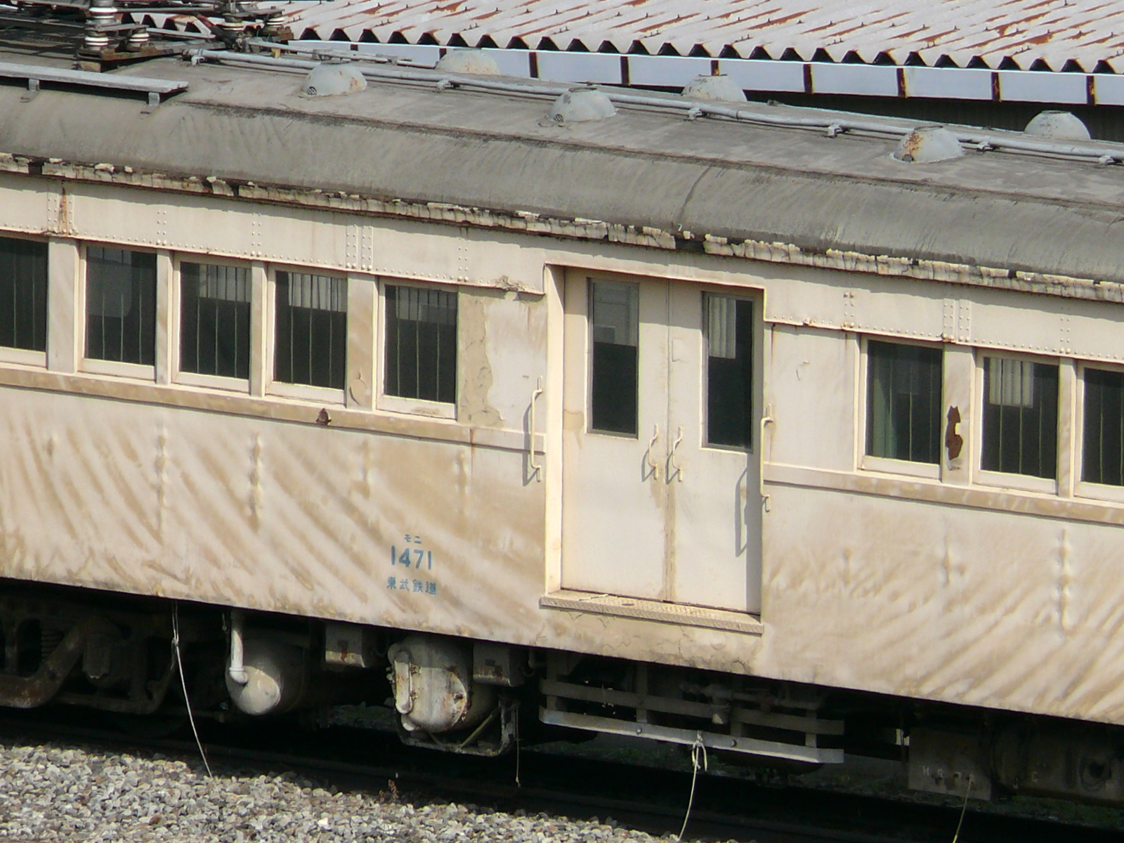 Tobu-Railway Type Moni1470 Train（1471）.